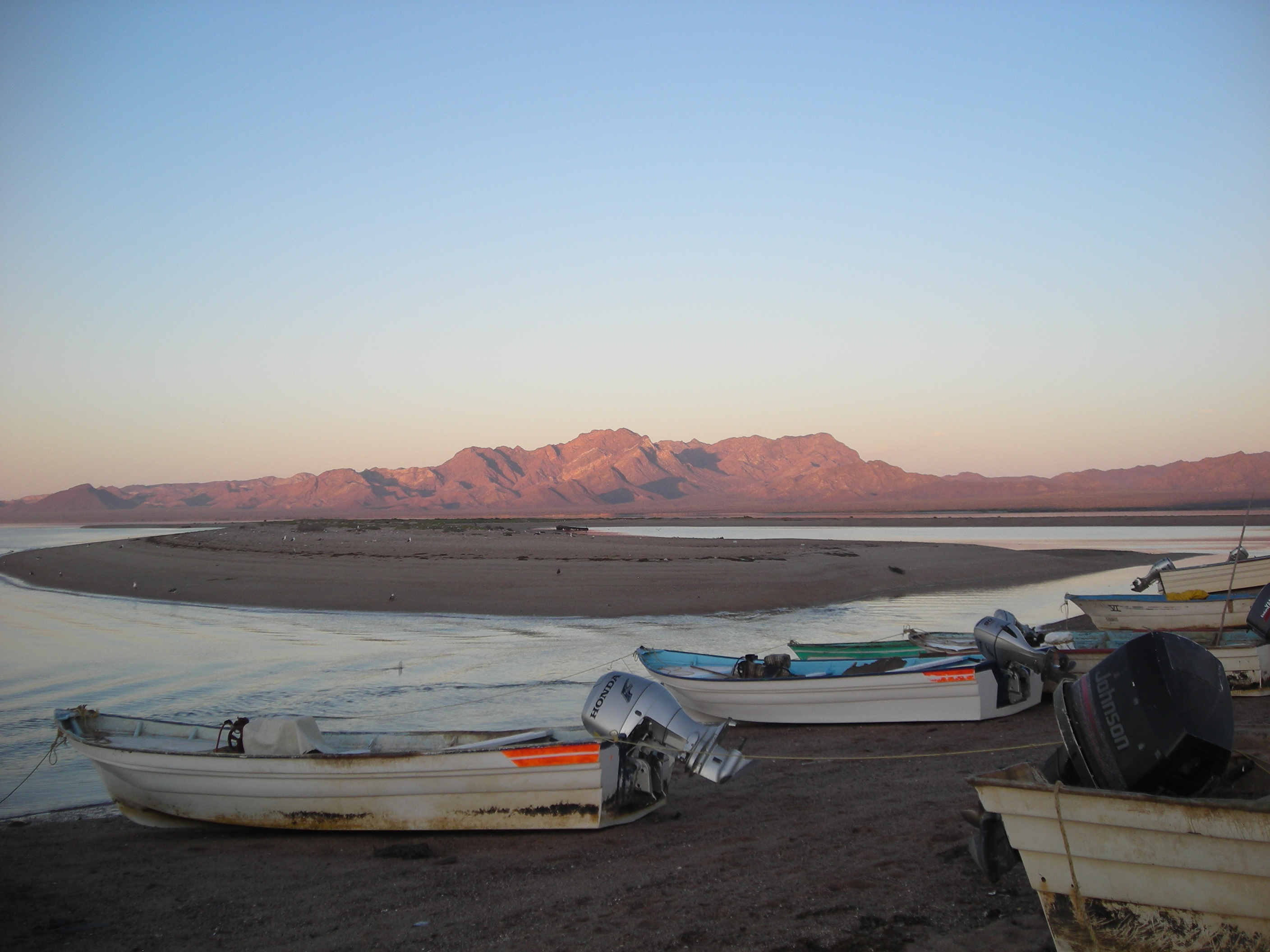 TIburon Island from Punta Chueca (Socaaix), specifically the peaks referred to as Hast Cacöla by the Seri people (comcaac) who live in Socaaix